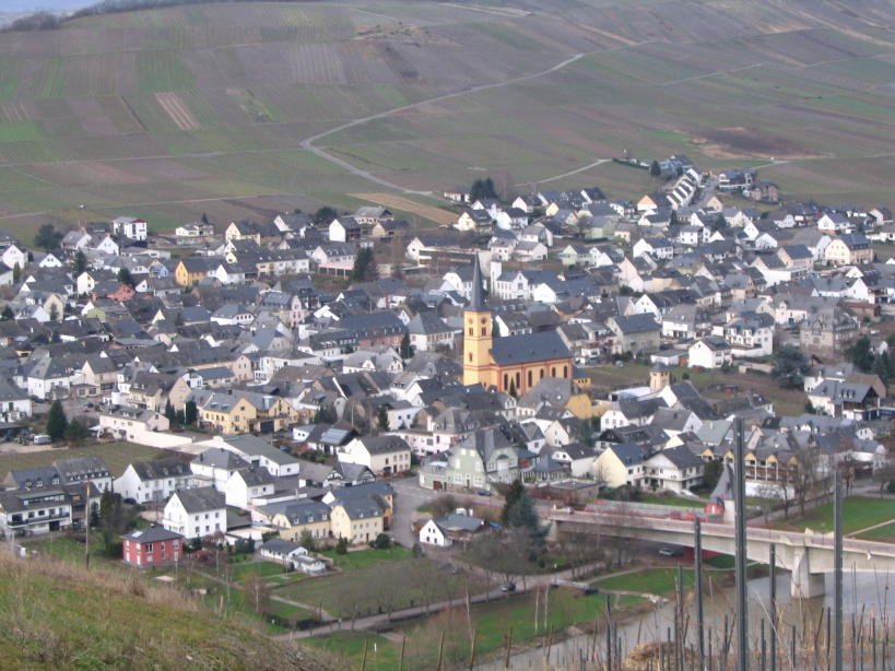 Photo of Trittenheim author: me date: feb. 2007